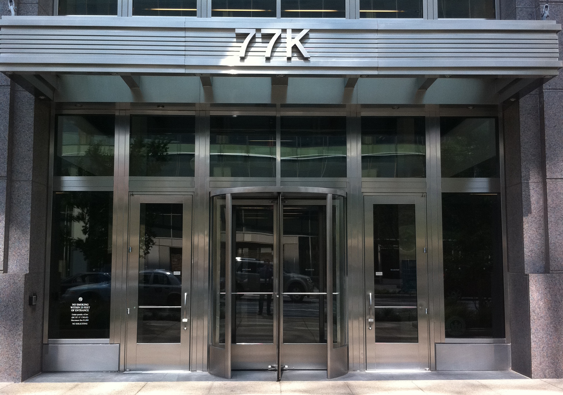 CQ Building Entrance